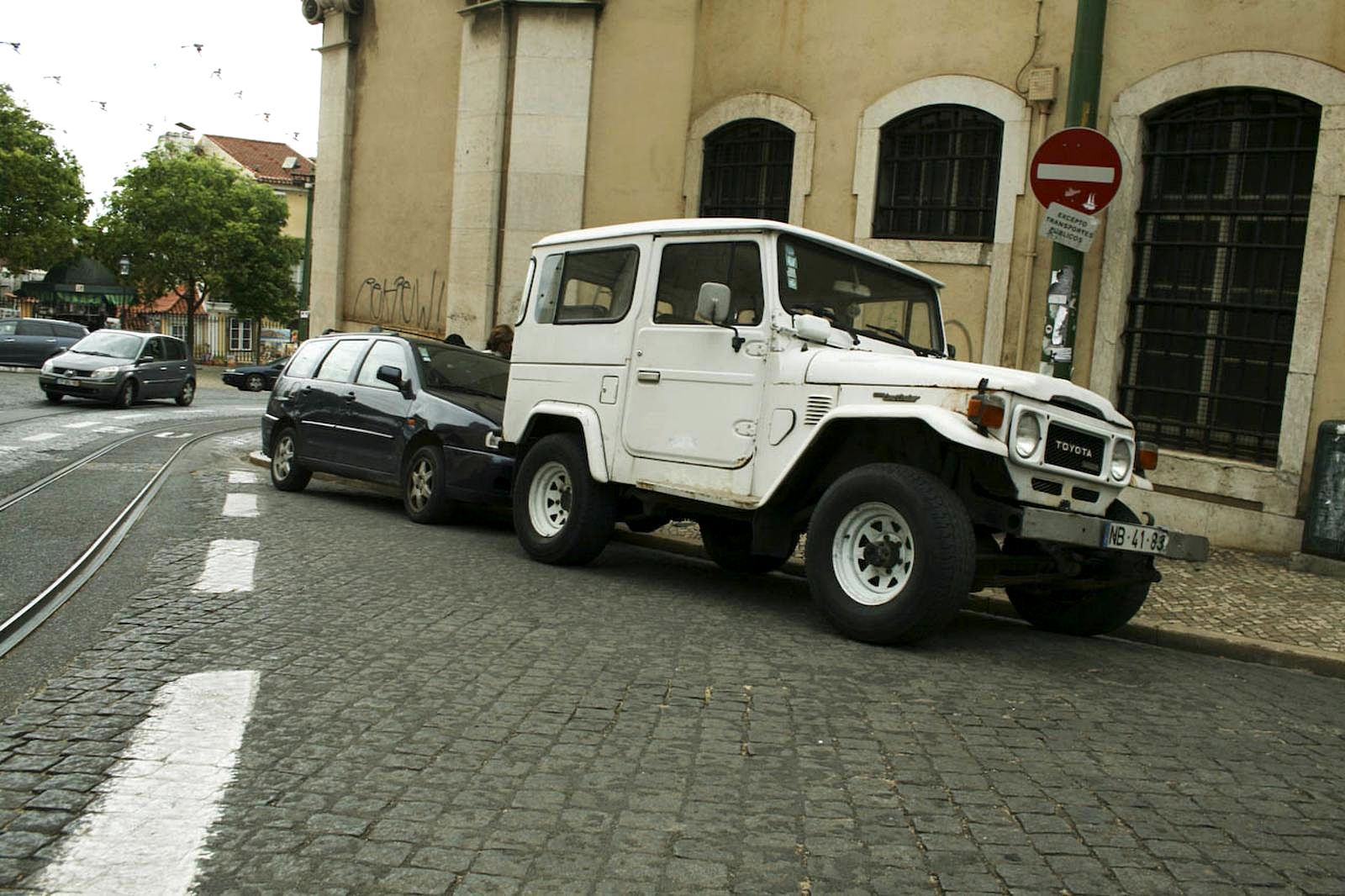 Image title: Parked cars on street Image from Public domain images website